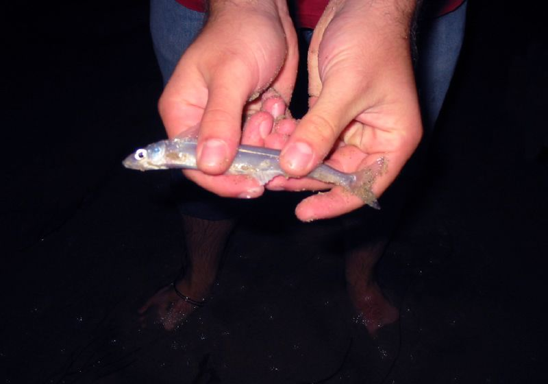 California Grunion (Leuresthes tenuis) caught by hand in San Diego, California, USA.